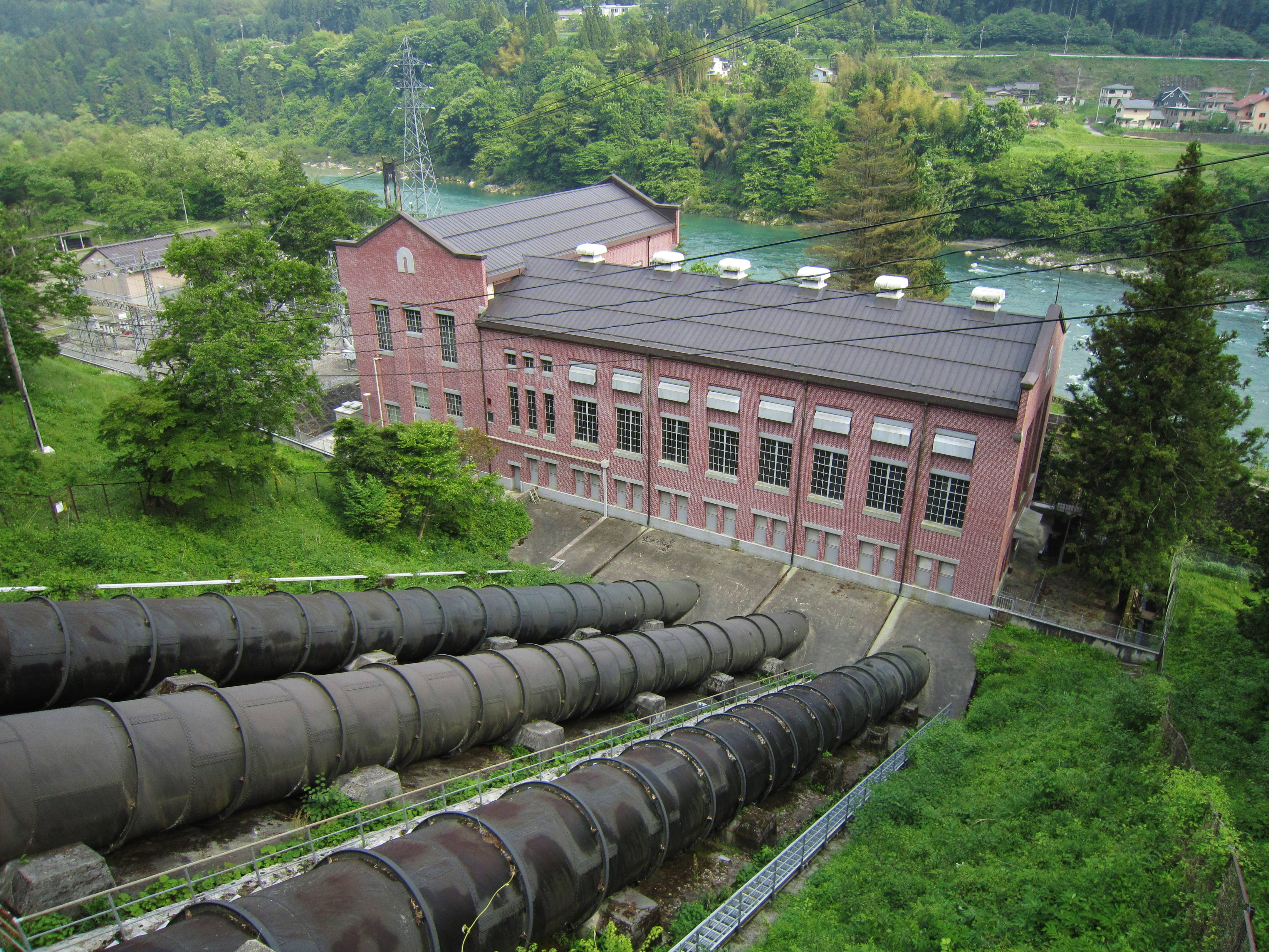 Ōkuwa power station.